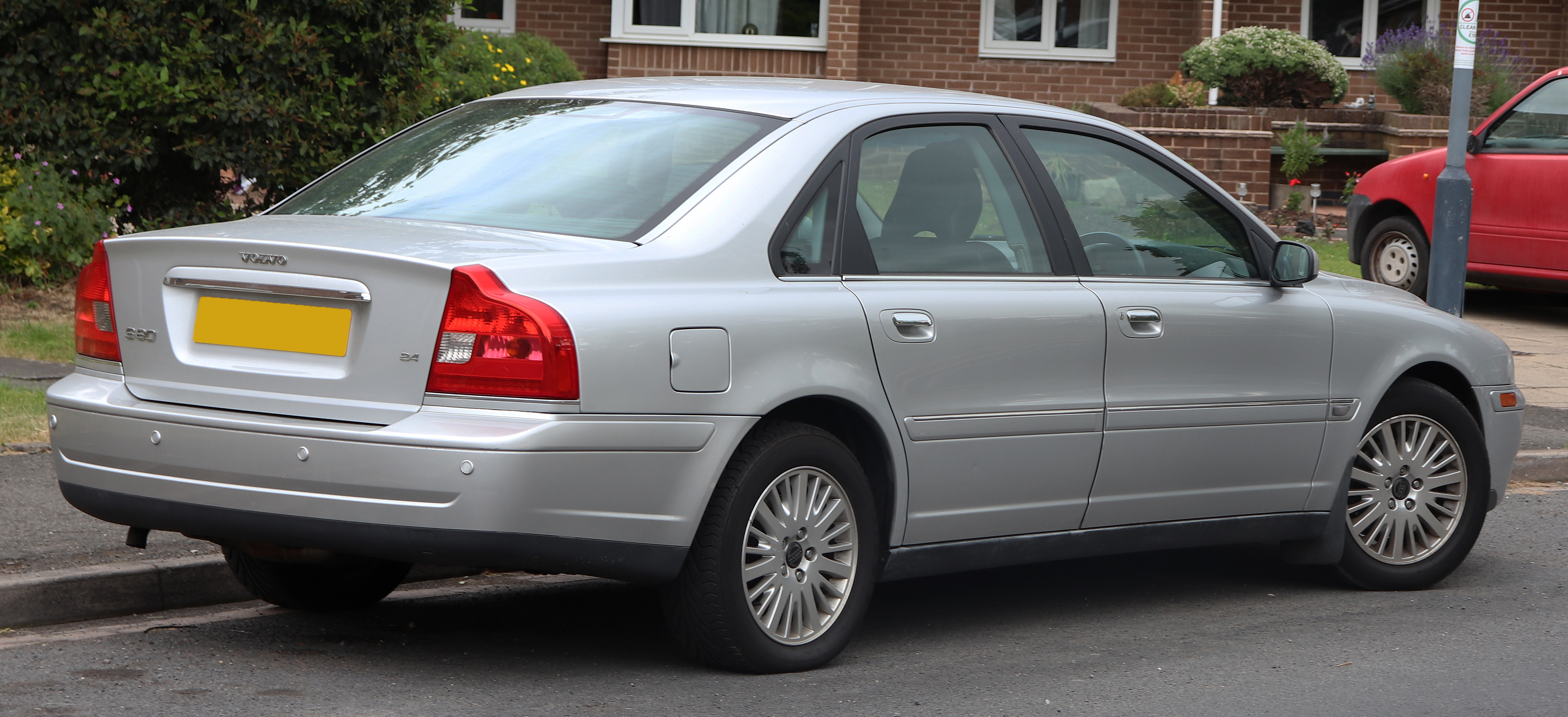 2004 Volvo S80 S Automatic 2.4 Rear Taken in Warwick